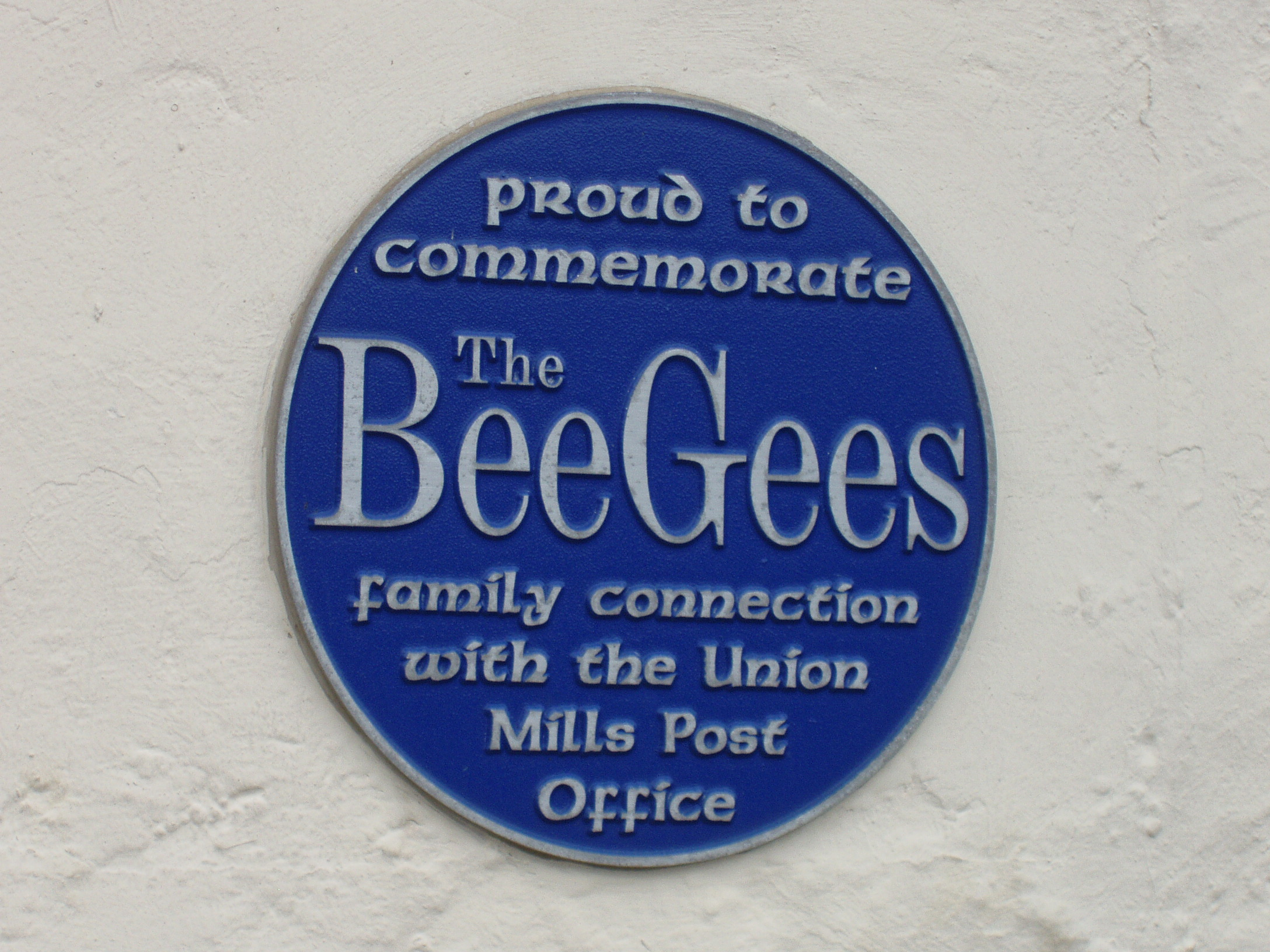 Plaque commemorating the Bee Gees connection to the Isle of Man. This is affixed to the exterior wall of a grocery store at the intersection of Maitland Terrace and Strang Road in Union Mills, Isle of Man.